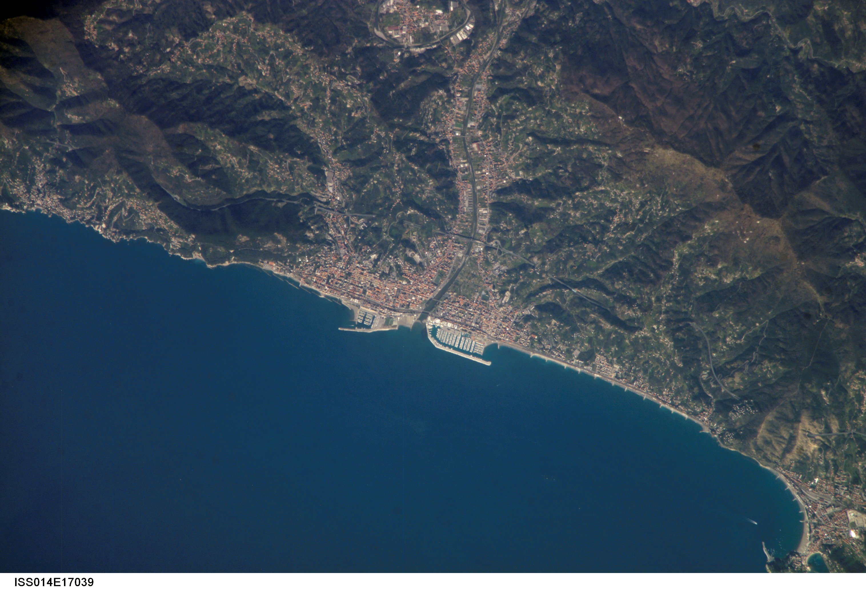 Chiavari and Lavagna, Italy, from NASA ISS mission Pictures Mission: ISS014 Roll: E Frame: 17039 Mission ID on the Film or image: ISS014 Country or Geographic Name: ITALY Center Point Latitude: 44.3 Center Point Longitude: 9.3